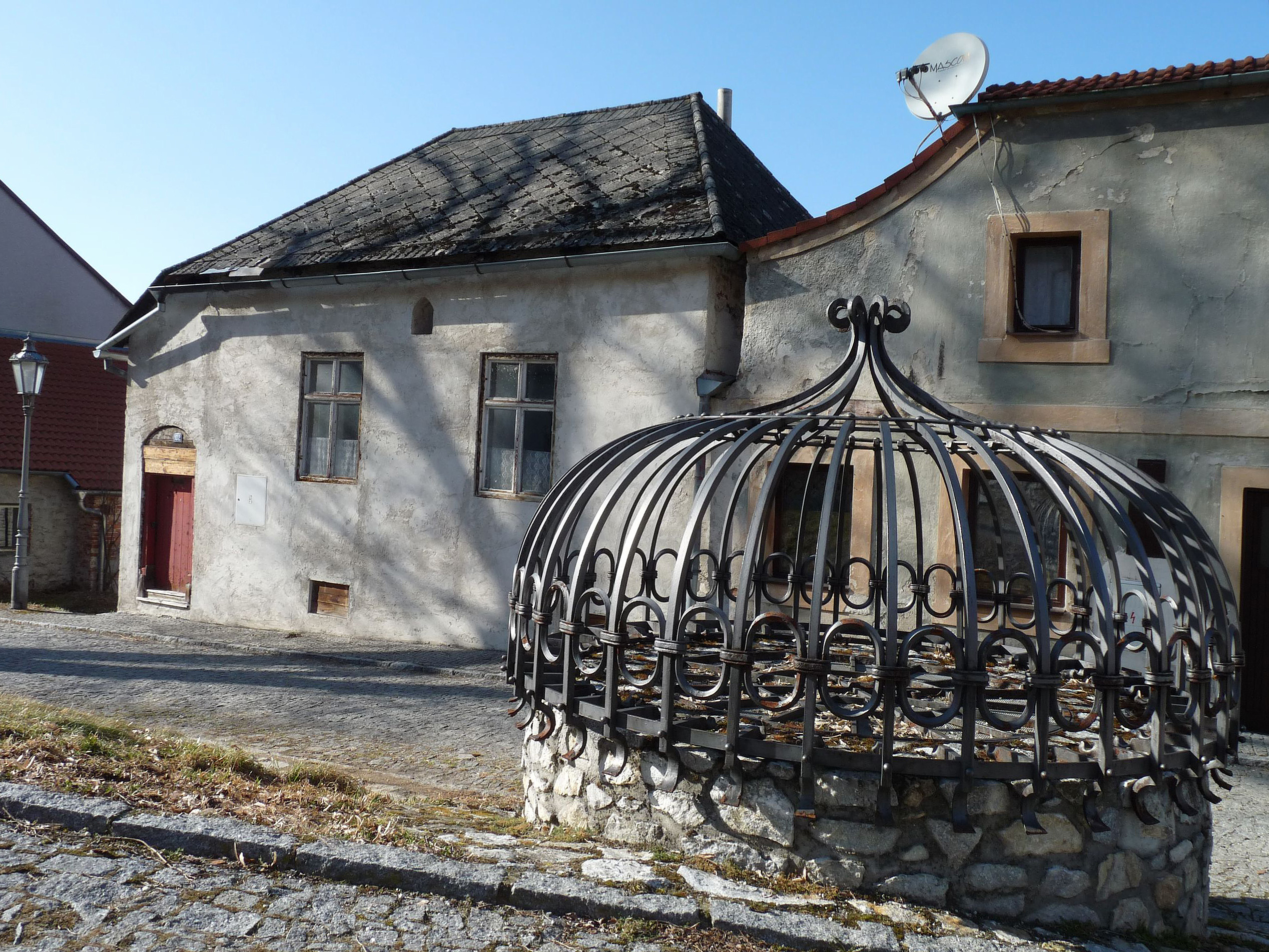 Former synagogue in the town of Rabí, Klatovy District, Czech Republic as seen over a local well